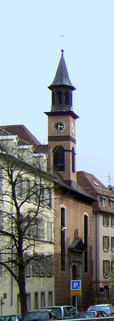 Original Reworked version of File:Au_Pont_du_Corbeau.jpg by kaʁstn Original-Description: (Uploaded by User:Crux) ---- This image was copied from de. The original description was: Am Ufer der Ill in Straßburg selbst fotografiert GNU-FDL